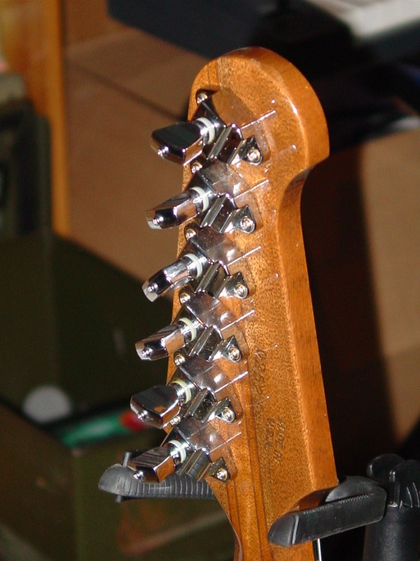 photo taken by T. Wesley, released to public domain for free use for any purpose